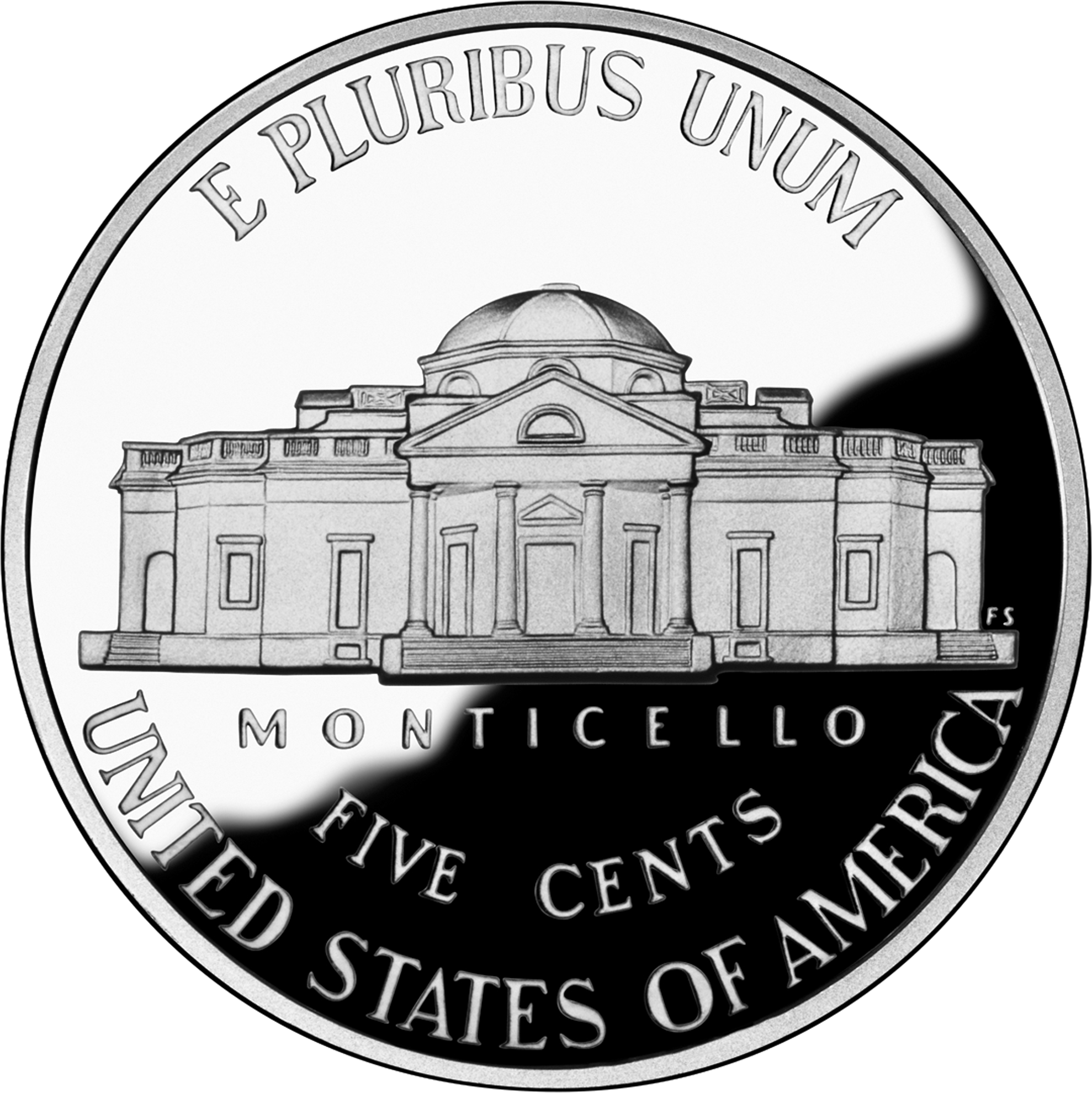 Removed background, cropped, and converted to PNG with Macromedia Fireworks. This image depicts a unit of currency issued by the United States of America. If Fraudulent use of this image is punishable under applicable counterfeiting laws. As listed by the United States Secret Service at money illustrations, the Counterfeit Detection Act of 1992, Public Law 102-550, in Section 411 of Title 31 of the Code of Federal Regulations (31 CFR 411), permits color illustrations of U.S. currency provided:1. The illustration is of a size less than three-fourths or more than one and one-half, in linear dimension, of each part of the item illustrated;2. The illustration is one-sided; and3. All negatives, plates, positives, digitized storage medium, graphic files, magnetic medium, optical storage devices, and any other thing used in the making of the illustration that contain an image of the illustration or any part thereof are destroyed and/or deleted or erased after their final use. Certain coins contain copyrights licensed to the U.S. Mint and owned by third parties or assigned to and owned by the U.S. Mint [1]. For the United States Mint circulating coin design use policy, see [2]; for the policy on the 50 State Quarters, see [3]. Also: COM:ART #Photograph of an old coin found on the Internet